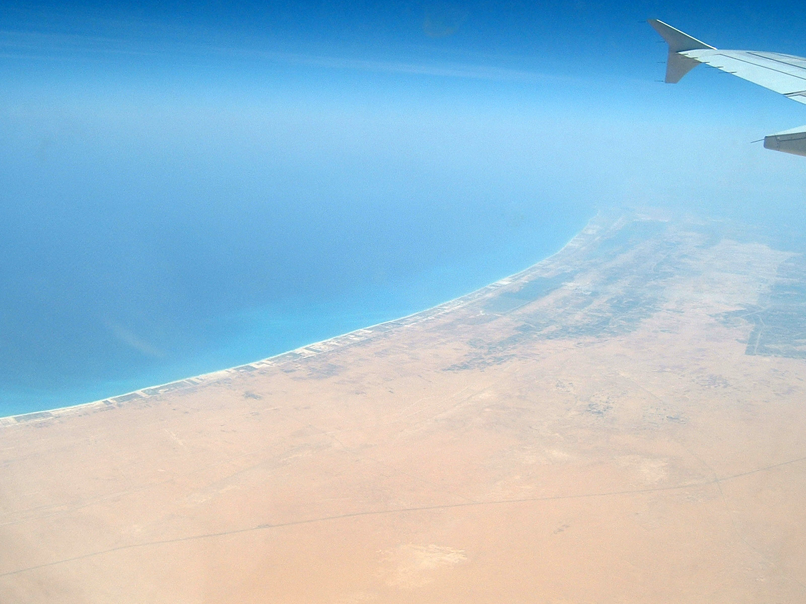 This photo was taken in Egypt near El Alamein.